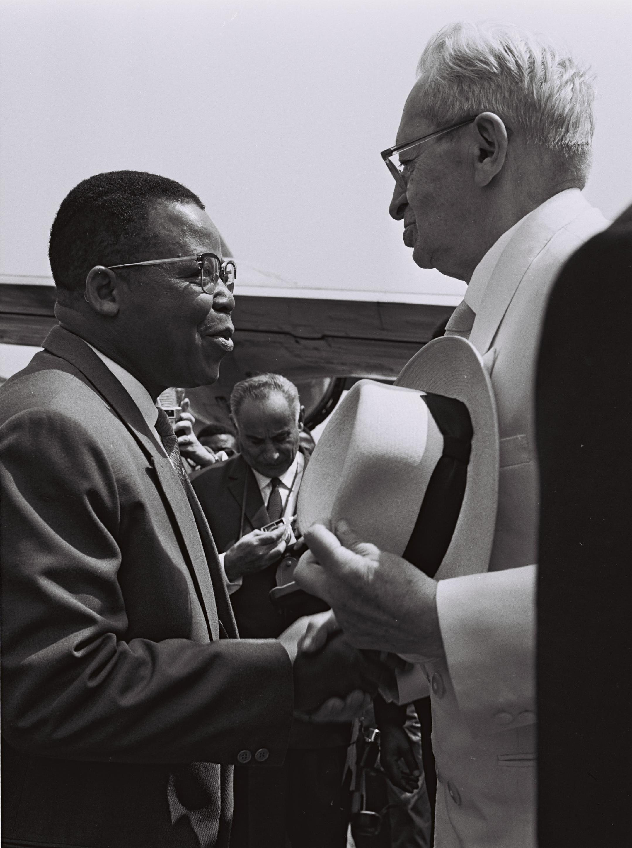 President of Israel, Yitzhak Ben Zvi, being welcomed by President Joseph Kasa-Vubu at the Leopoldville airpot.